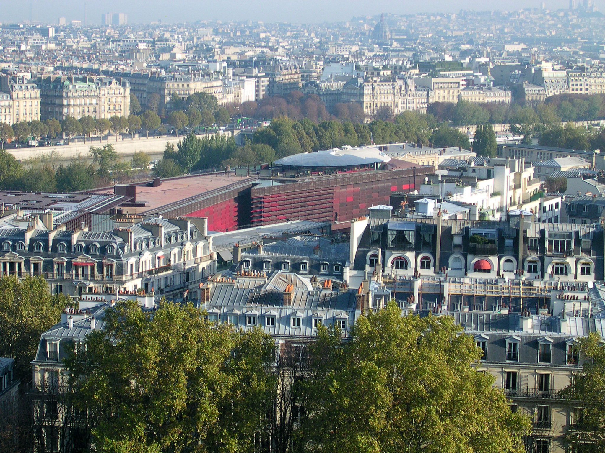 Quai Branly museum in Bralnly à Paris, VIIe arrondissement (France). Picture taken from the first floor of the Eiffel Tower.